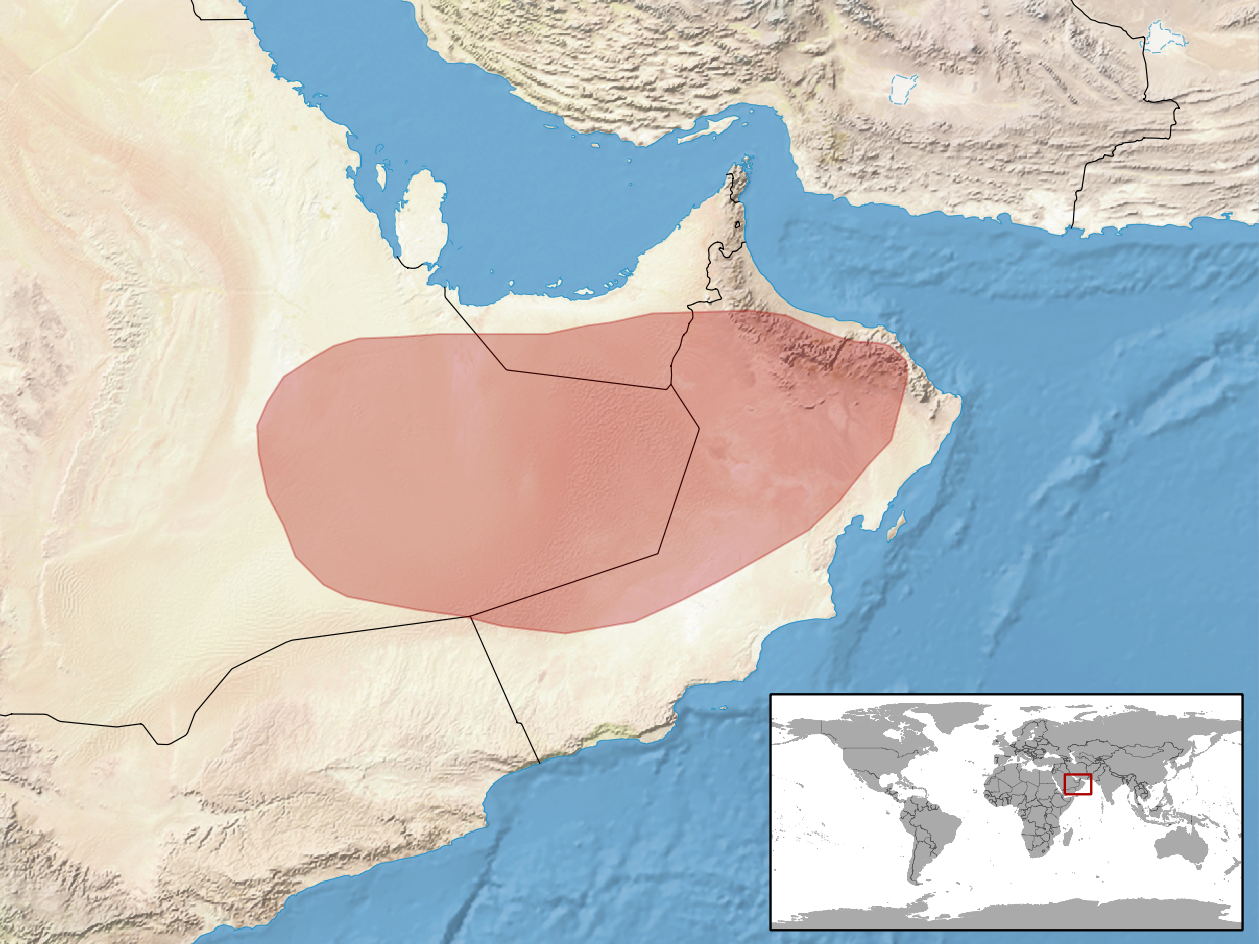 geographic distribution of Trapelus jayakari (Native: Oman; Saudi Arabia; United Arab Emirates; Yemen)